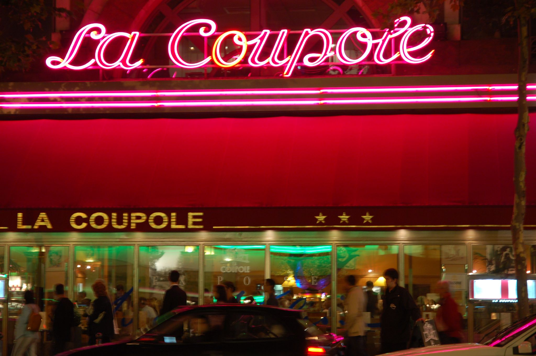 La Coupole, a bar in Paris, by night